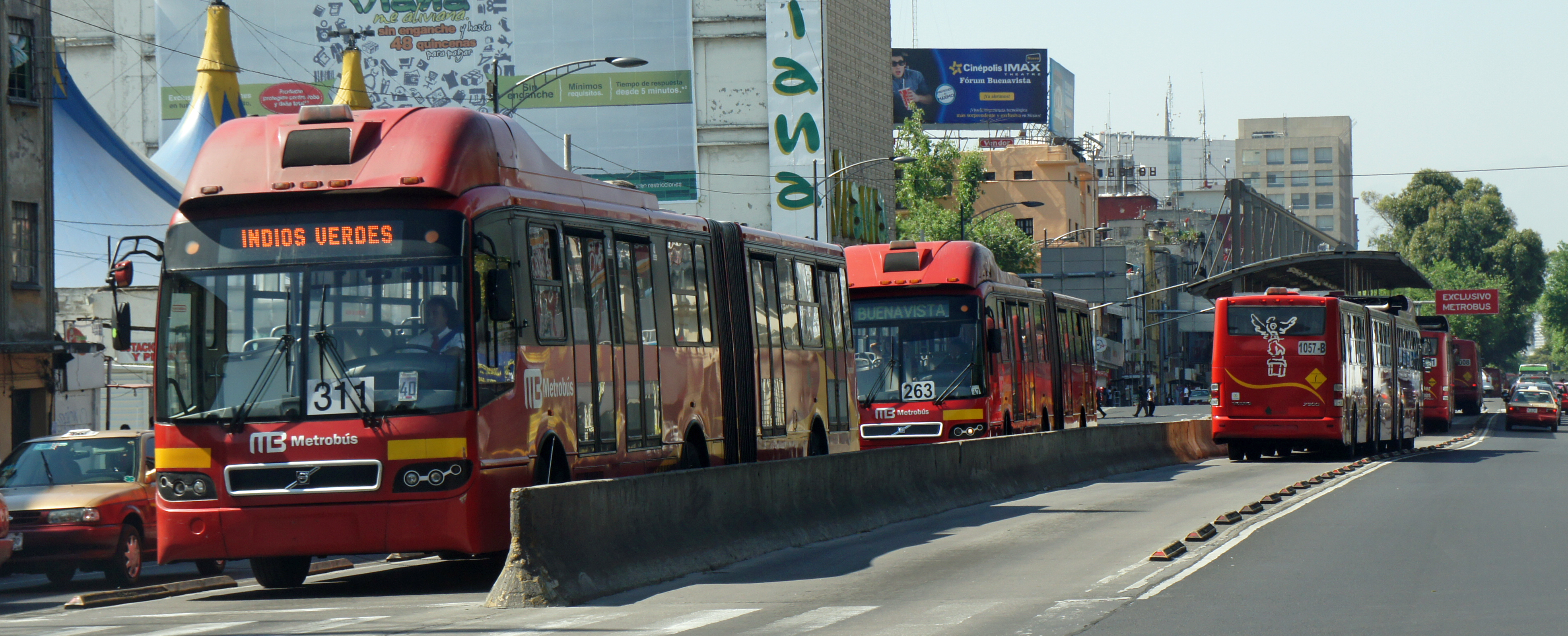 BRT Metrobus Mexico City (Line 1)